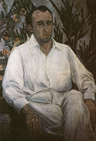 Portrait of Frederick Delius